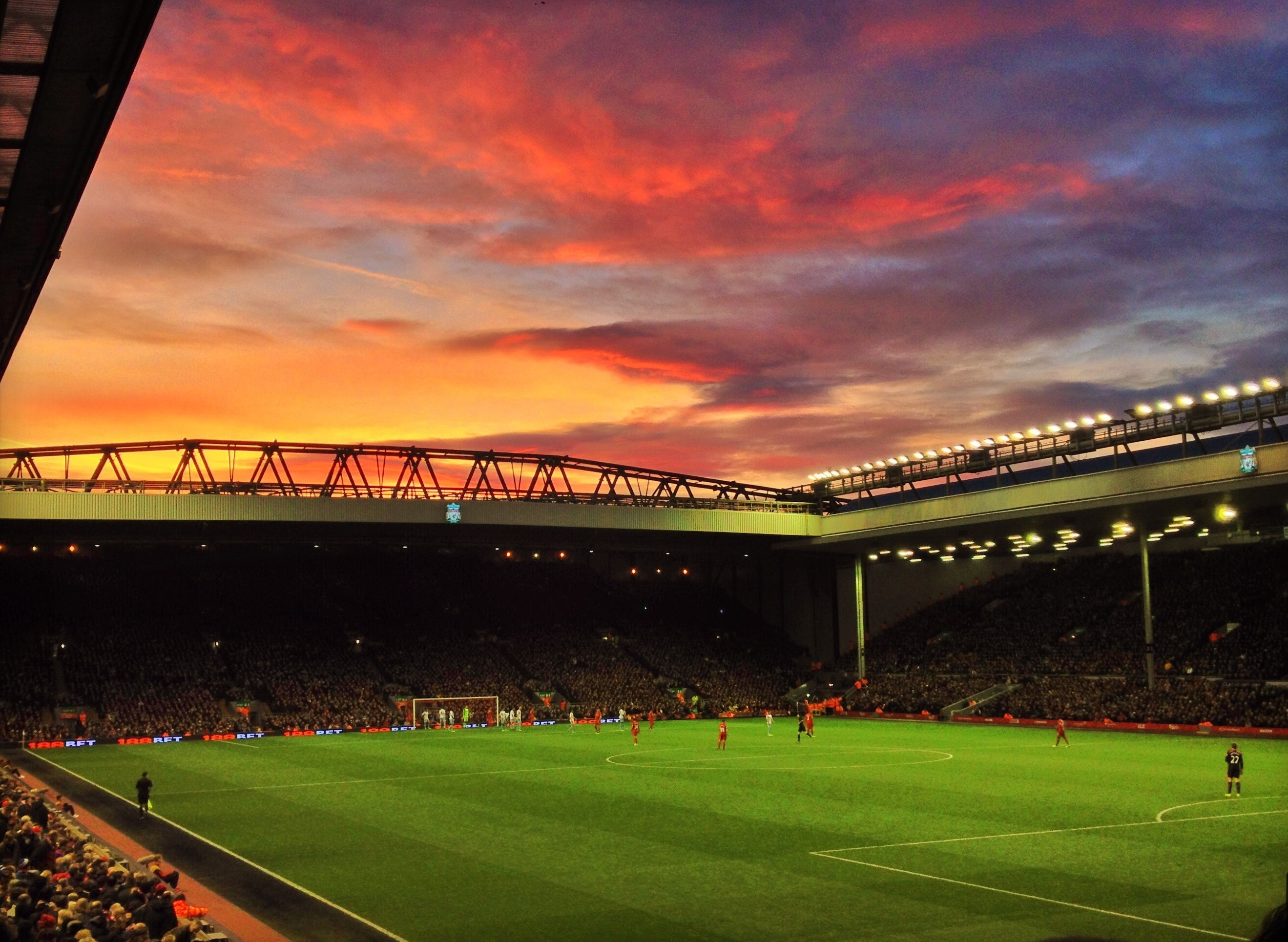 As i sat in the Anfield Road end during the second half of the Liverpool-West Ham match, a burgeoning sunset began to develop behind the Kop End. I am a sucker for sunsets, but I rarely get to photograph one with an interesting foreground as well! This was taken on my iPhone (using the HDR option) and adjusted using Snapseed to brighten the ground level and boost the sky. I hope you like.